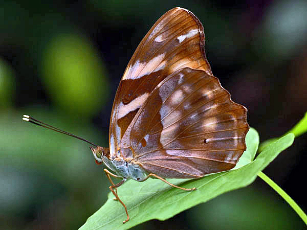 Photographed in Namdapha sanctuary, India.Apatwardhan 17:17, 28 June 2007 (UTC)